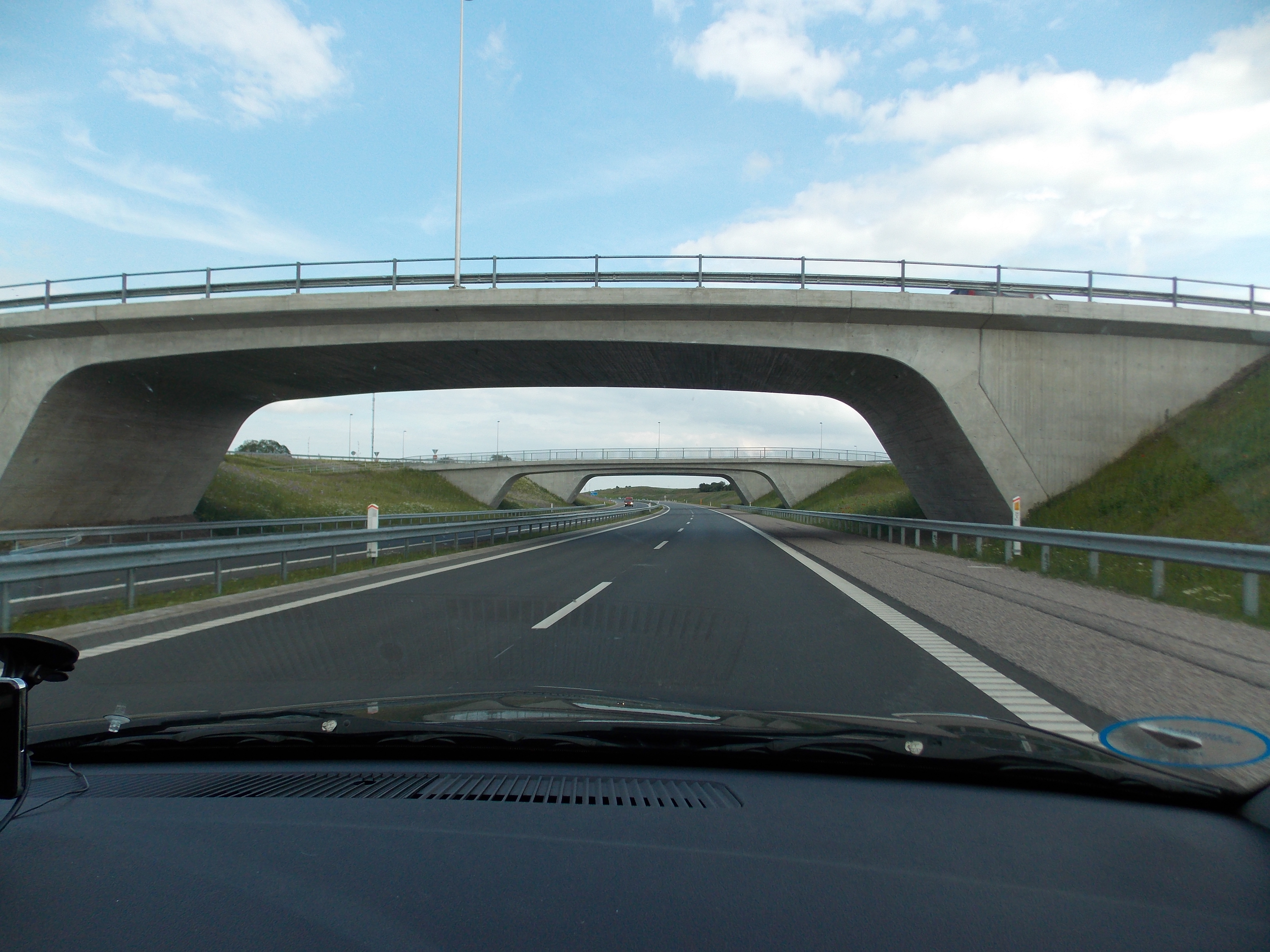 Three bridges across motorway at Dybbøl, Denmark